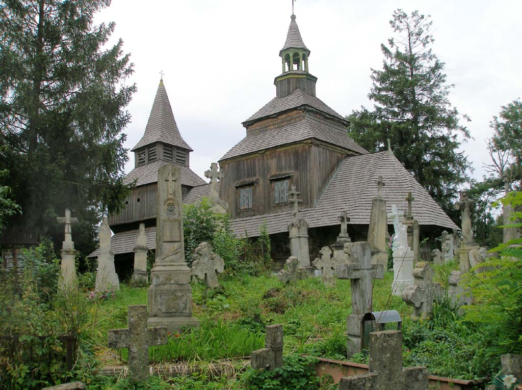 Rohatyn Holy Spirit church, wooden church 17th century